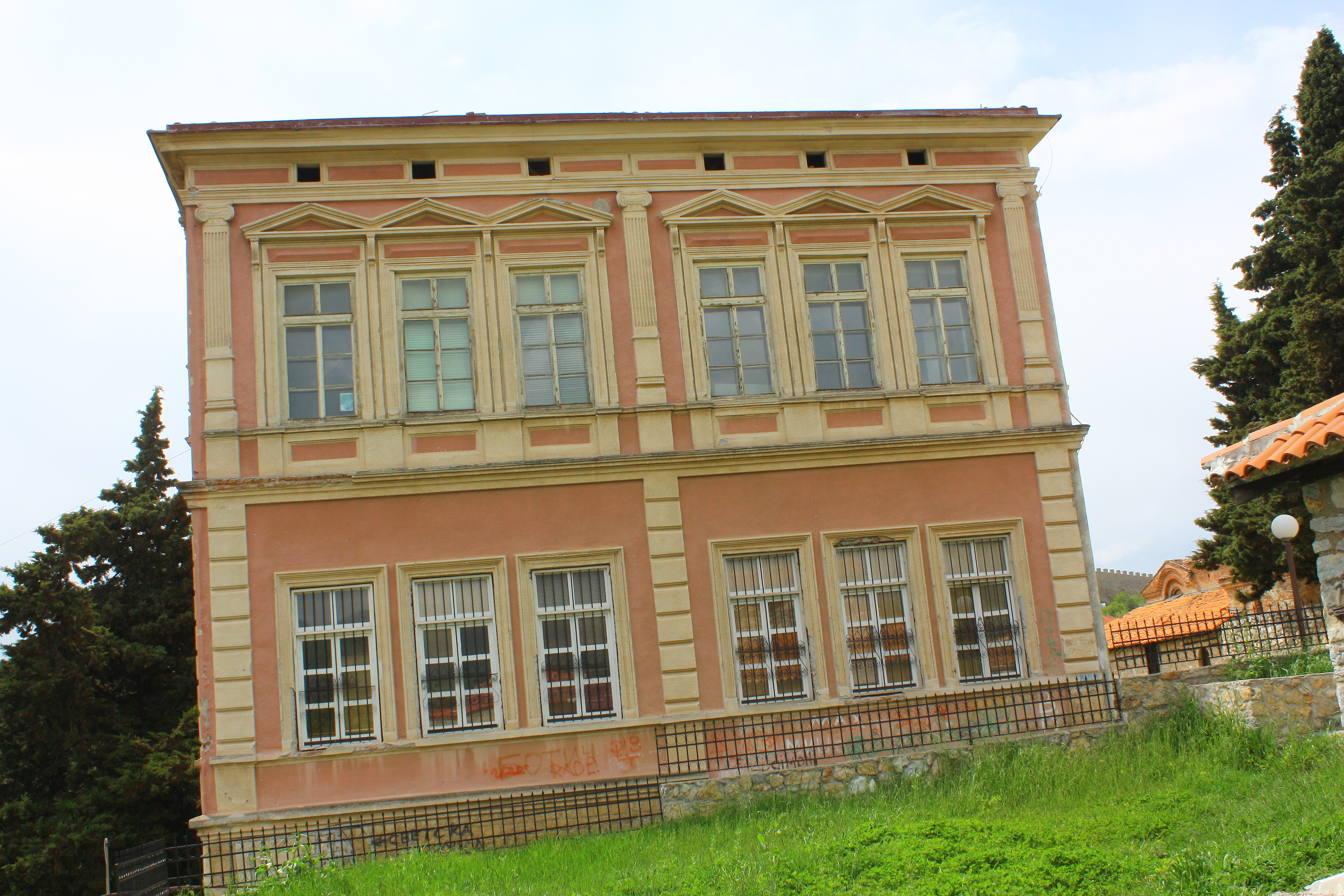 Old Saint Clement's school in Ohrid, Macedonia